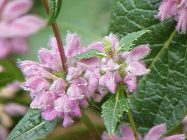 Species: Phlomis tuberosa Family: Labiatae Image No. 4